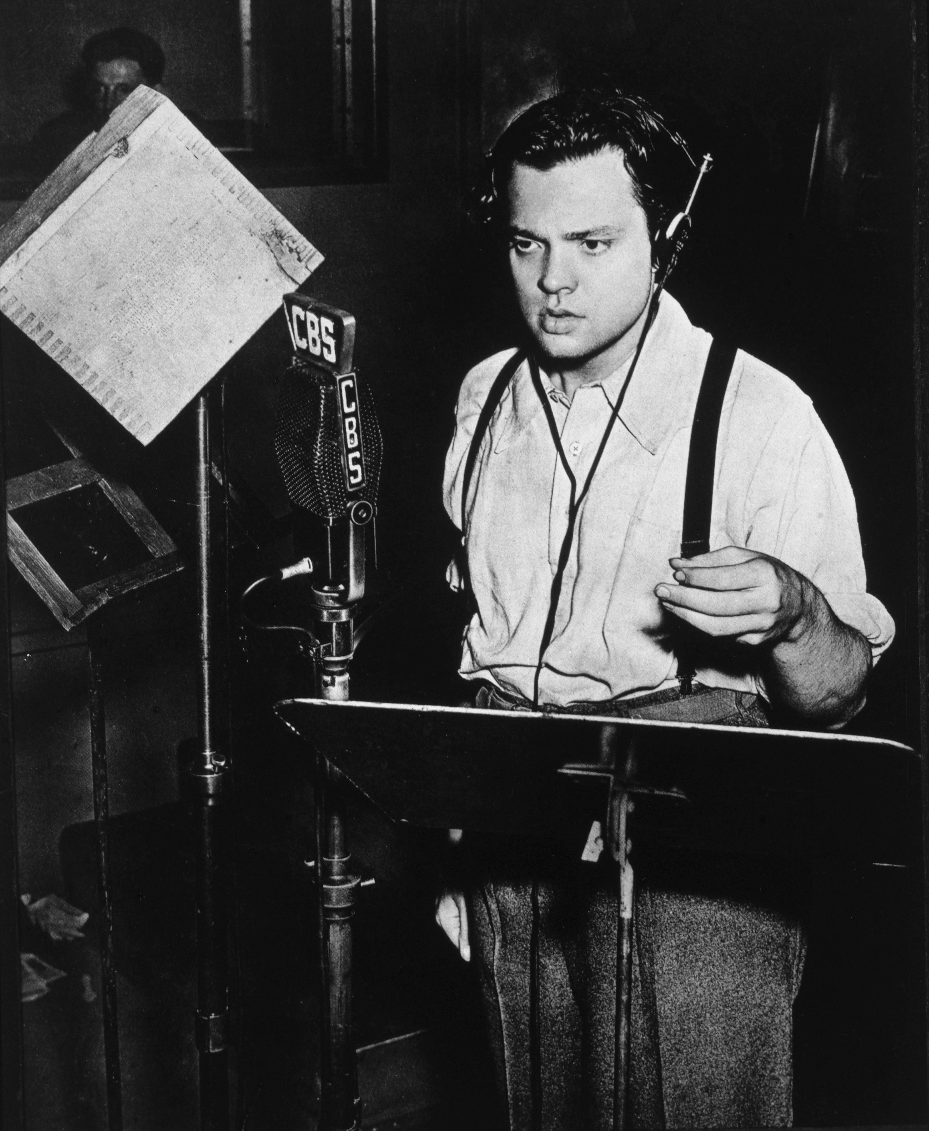 Photograph of Orson Welles at work in the CBS Radio studio, used in a feature story on the War of the Worlds broadcast